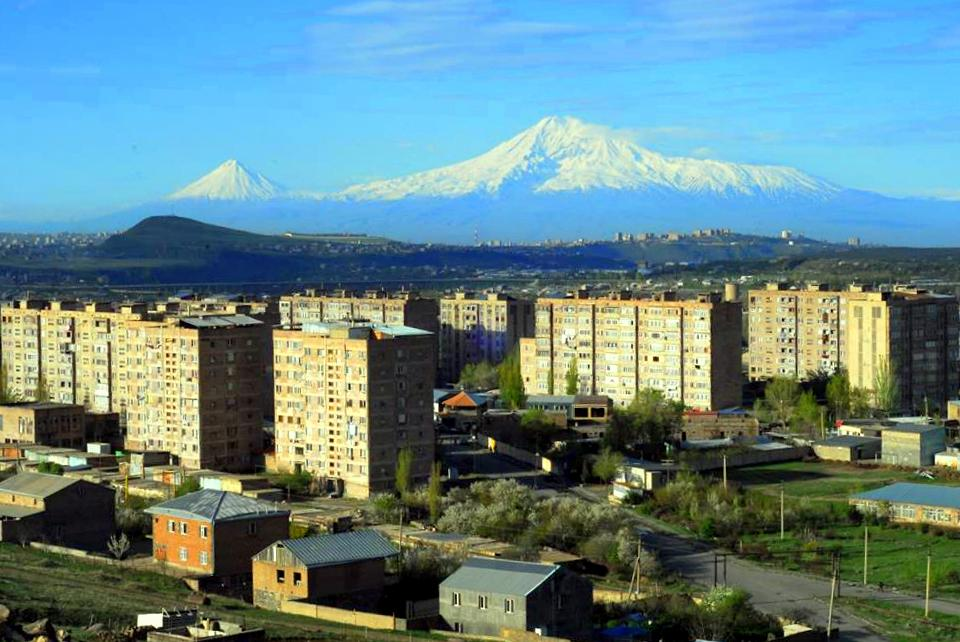 Byureghavan with mount Ararat, Kotayk, Armenia, 15 April 2014.